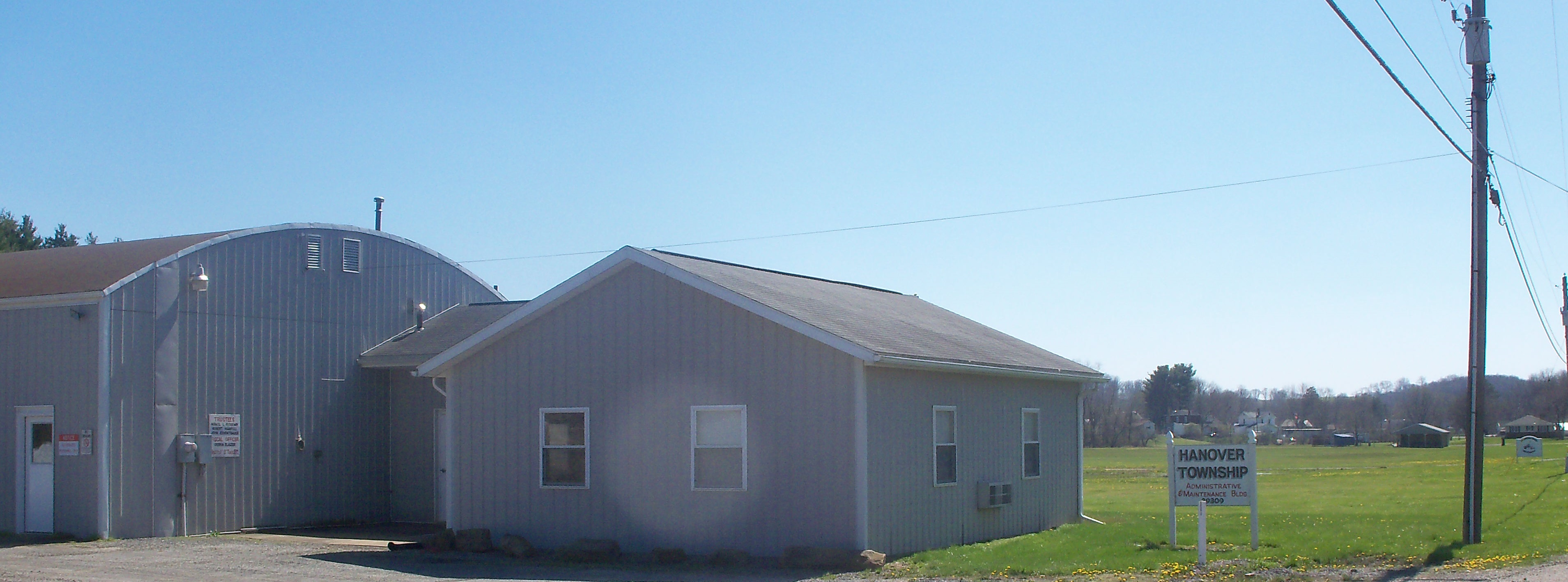 Meeting Hall and service garage for Hanover Township, Columbiana County, Ohio between Kensington, Ohio and Hanoverton, Ohio